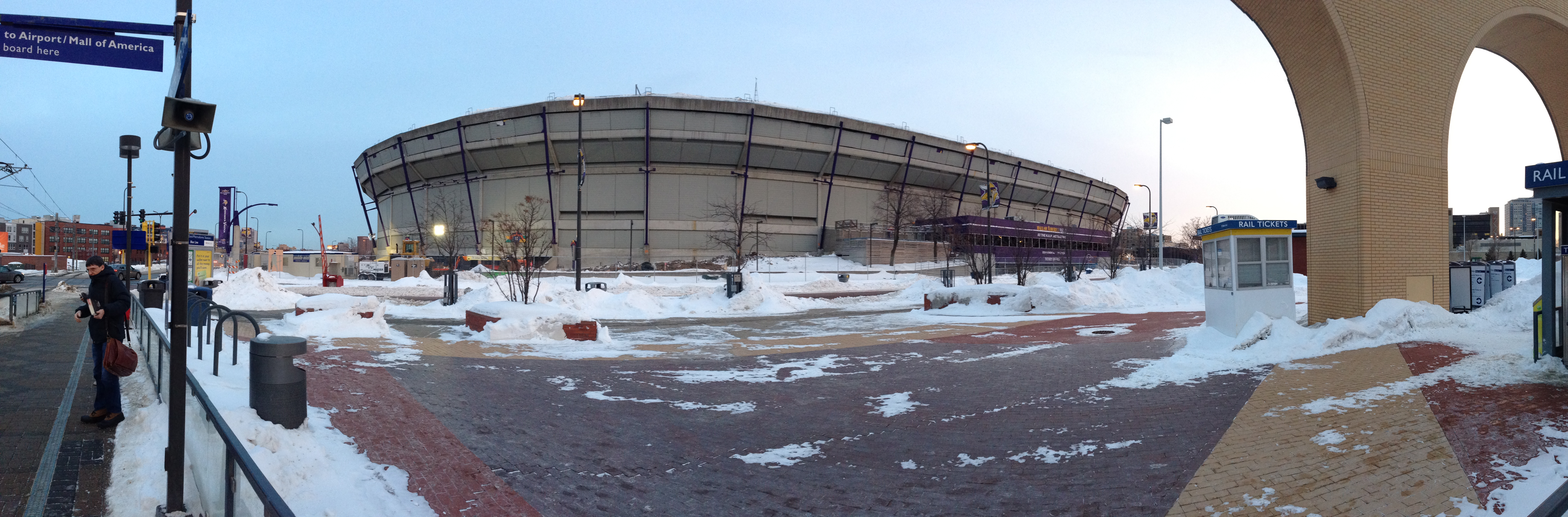 The Metrodome the week before demolition. Once the stadium for the Minnesota Vikings NFL team. To the right is the Downtown East - Metrodome light rail station, with ornamental arches.